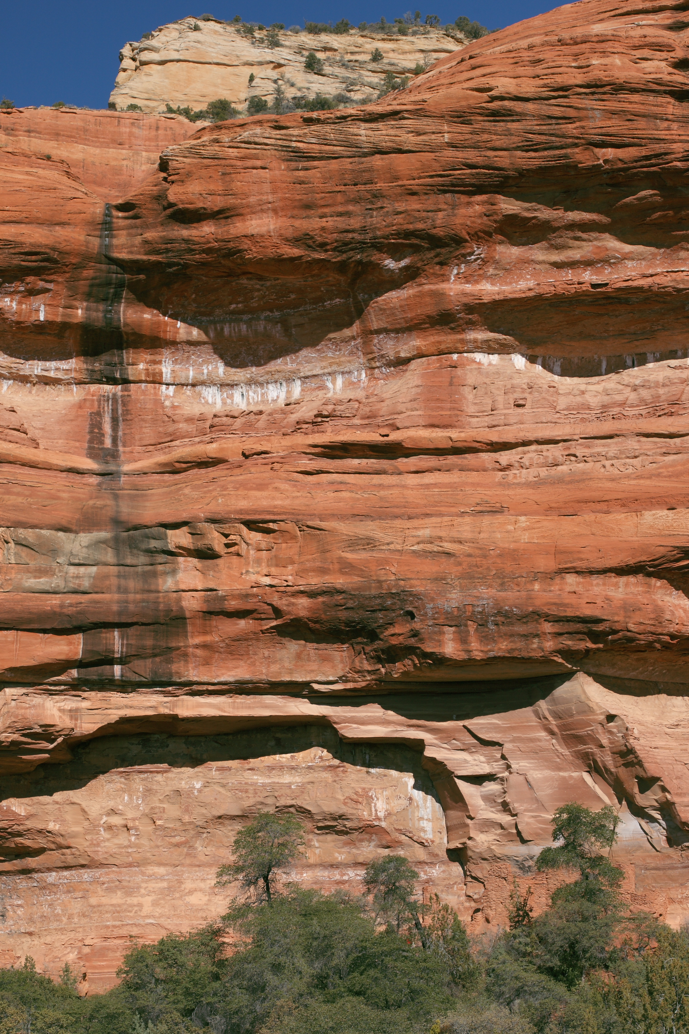 Sinagua Indian cliff dwellings at the base of the rocks at Palatki near Sedona, AZ, USA